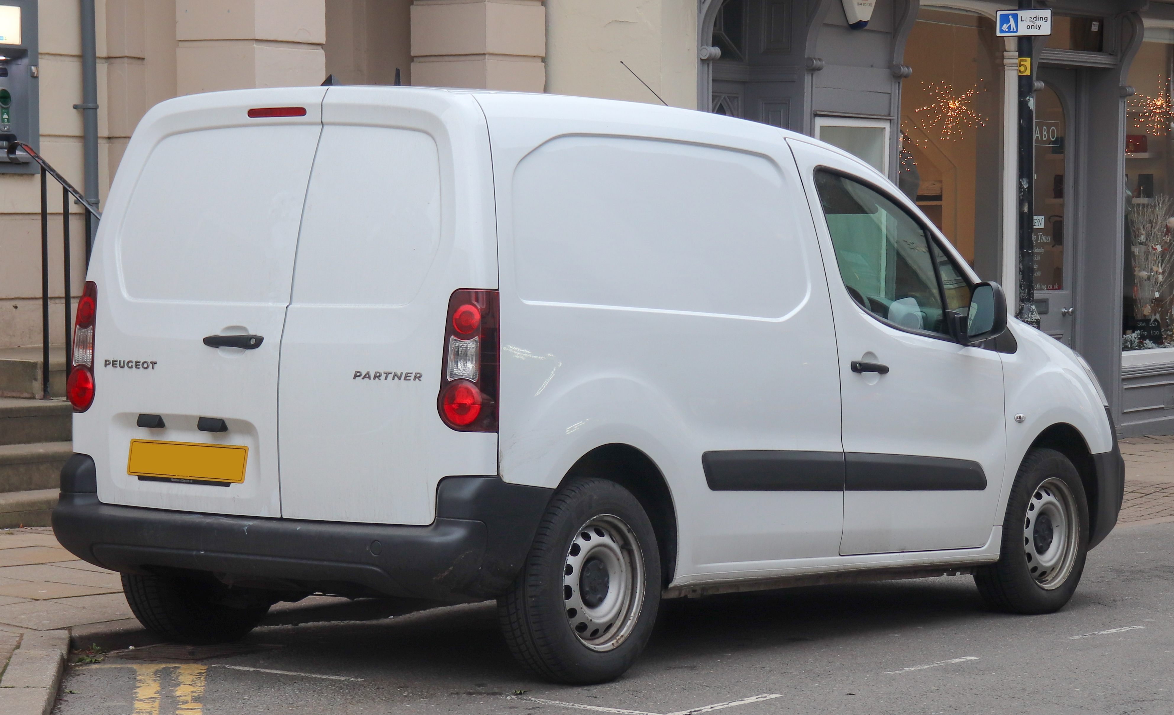 2017 Peugeot Partner S L1 BlueHDi 1.6 Rear Taken in Leamington Spa